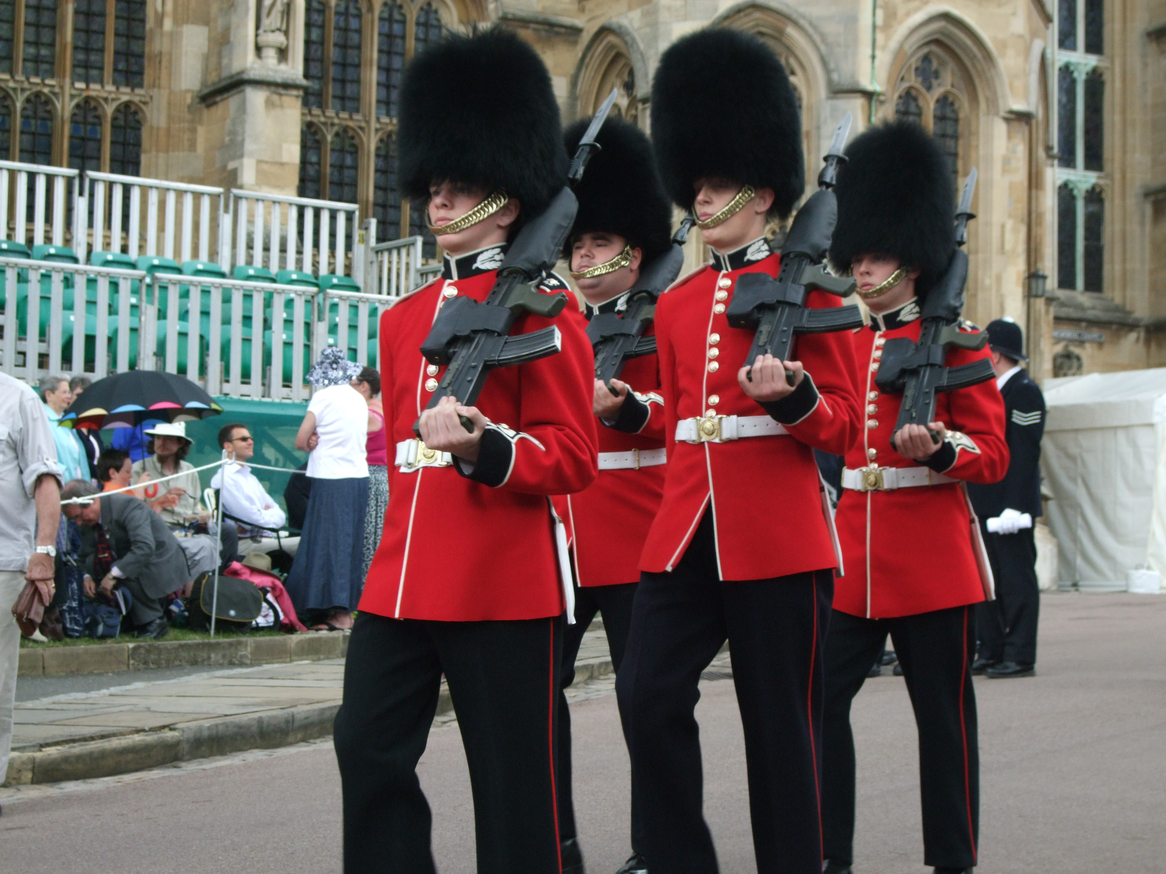 Scots Guards at Windsor Castle